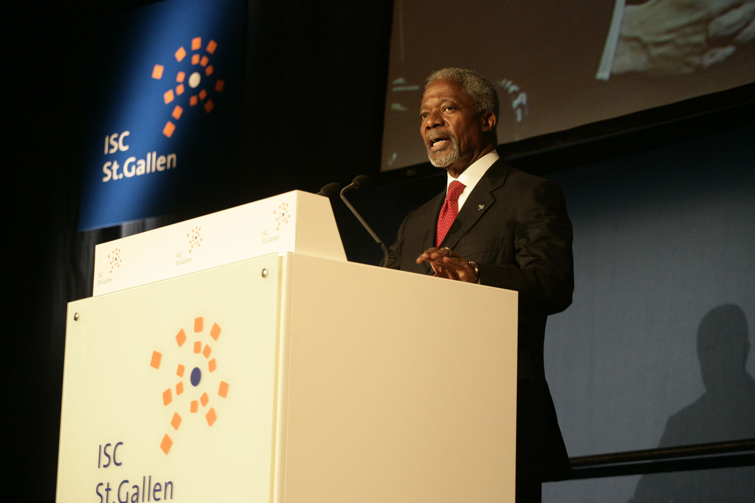 Kofi Annan delivers a speech during the ceremonial of the Freedom Prize of the Max Schmidheiny-Stiftung in 2006 organised by the ISC